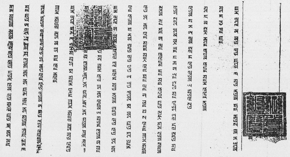 Manuscript Copy of an Imperial Edict of the Yuan dynasty in Phagspa script. Seals are in chinese great seal. The stamp at right is ??之寶